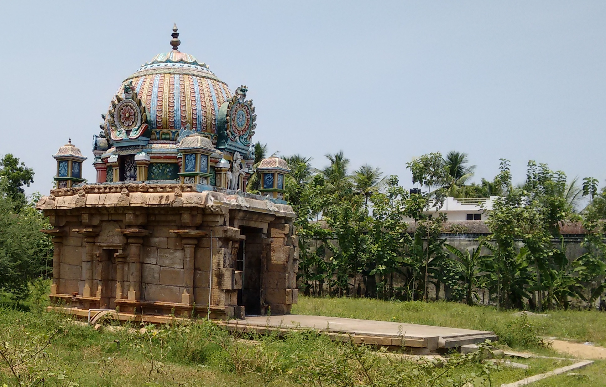 Tiruvalanchuli Kabardeesvara Temple திருவலஞ்சுழி கபர்தீஸ்வரர் கோயில்